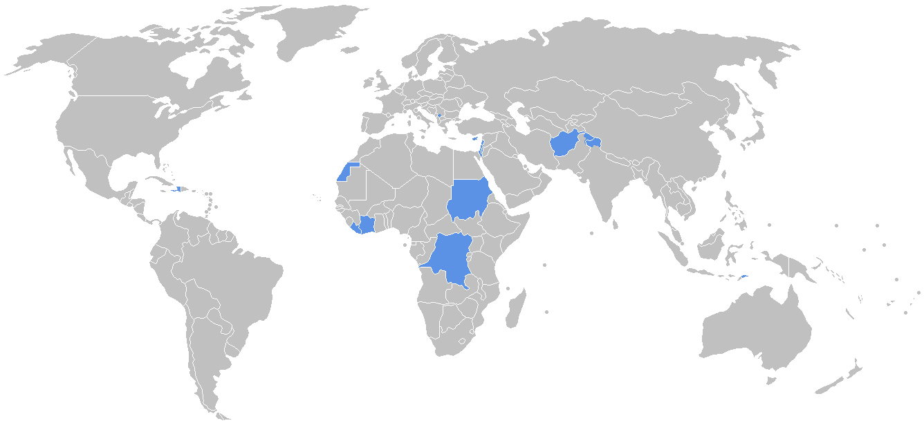 Locations of current UN peacekeeping missions